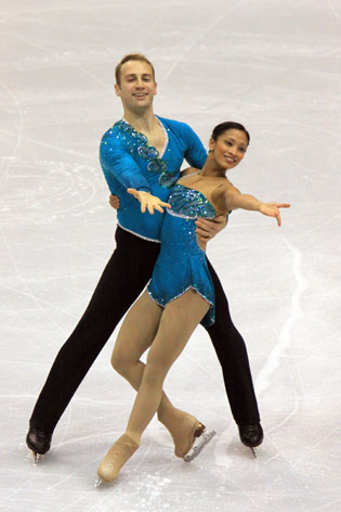 Amanda Evora and Mark Ladwig from 2009 Skate America